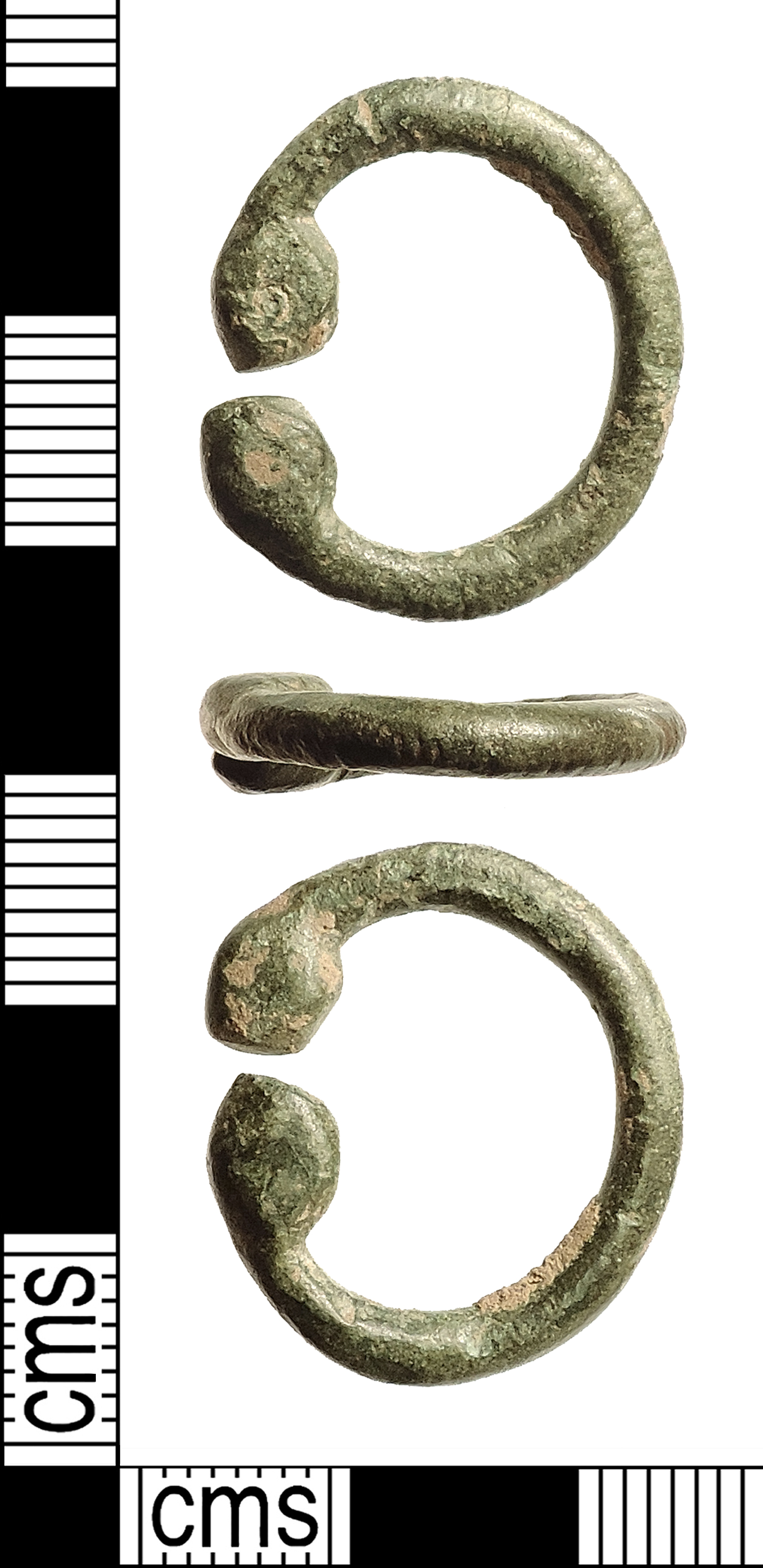 An incomplete Early-Medieval (Anglo-Saxon) copper-alloy penannular brooch of Fowler's Type G, c. 410-c. 650. The pin is missing The frame is oval in cross-section and decorated on the upper surface only with a series of transverse ribs. However, these are almost completely worn and are barely visible. The terminals are circular and are flat on the decorated side and slightly convex on the underside. In the centre of each terminal on the decorated side there is a small circular cell containing decorative material. The colour of the material in one cell is blue and probably enamel. The other cell contains brown decayed material. Length: 23.9mm; width: 22.7mm; thickness of frame: 4.2mm; terminals c. 6.2mm x 5.6mm. Weight: 4.34g. This brooch has a shiny dark green patina and is worn overall. A similar penannular with enamelled dots was found in a grave at Fairford, Gloucestershire (Wylie, 1852, 23, pl.v/5; White, R. H. (1988) 'Roman and Celtic Objects from Anglo-Saxon Graves', BAR 191: Oxford, p.20; Dickinson 1982, fig.4, 13). Penannular brooches of Fowler's Type G mostly date to the 5th and 6th centuries, though some may continue into the 7th century. Compare with: LIN-35B2BE andNLM1052.